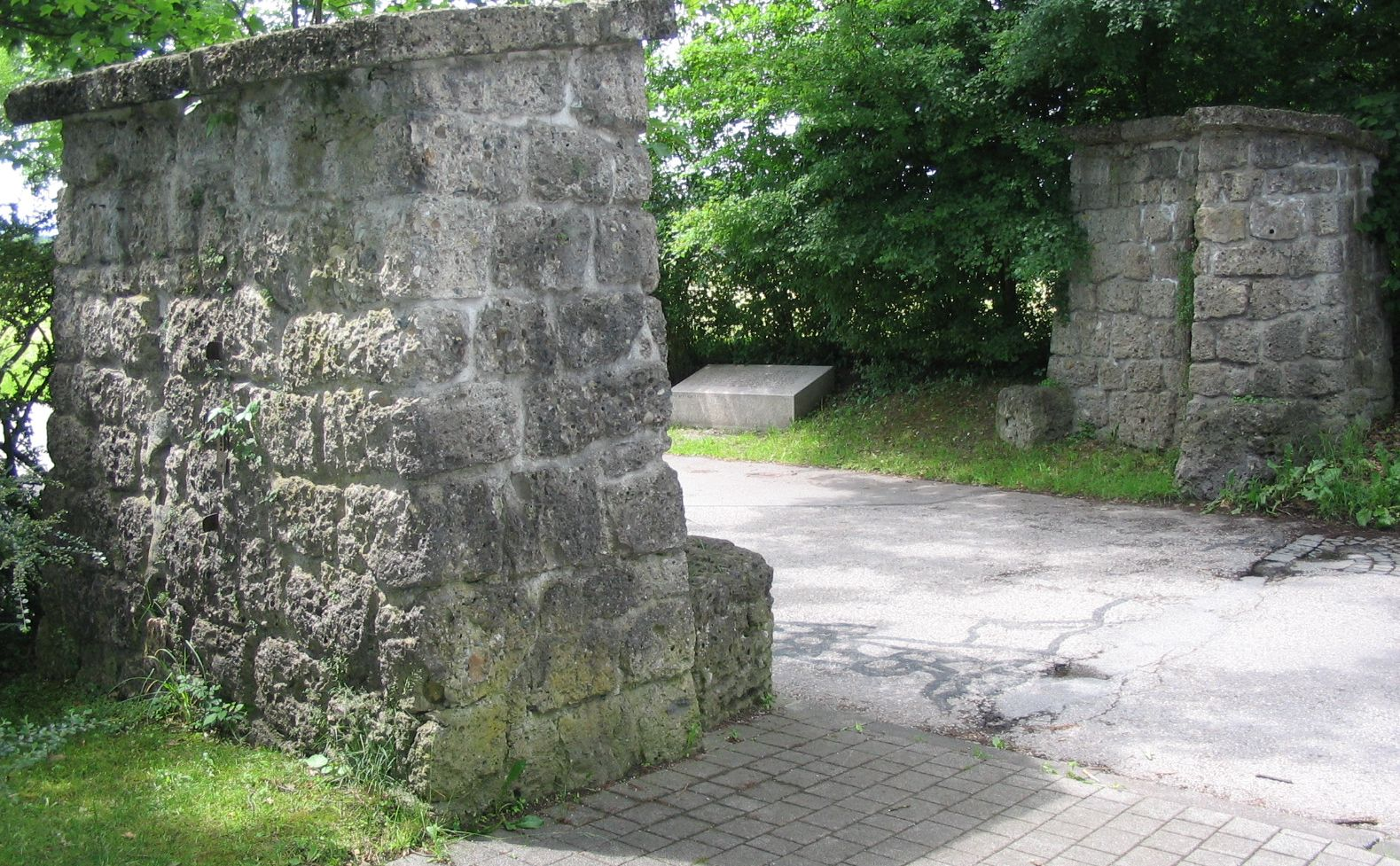 Entrance gate to the no longer existing flak casern in Haidholzen made out of Nagelfluh